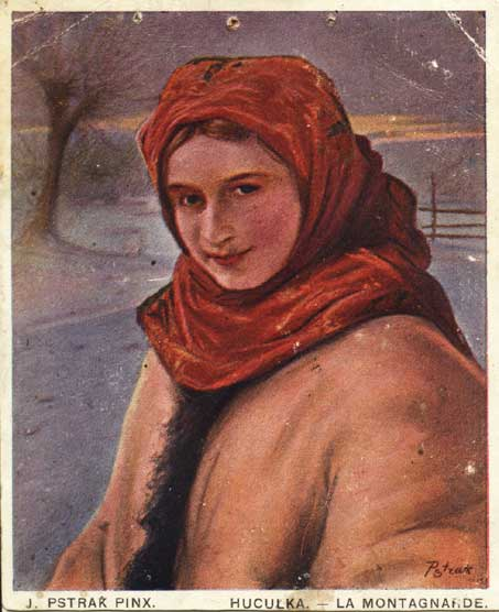 Hutsul Woman (postcard)